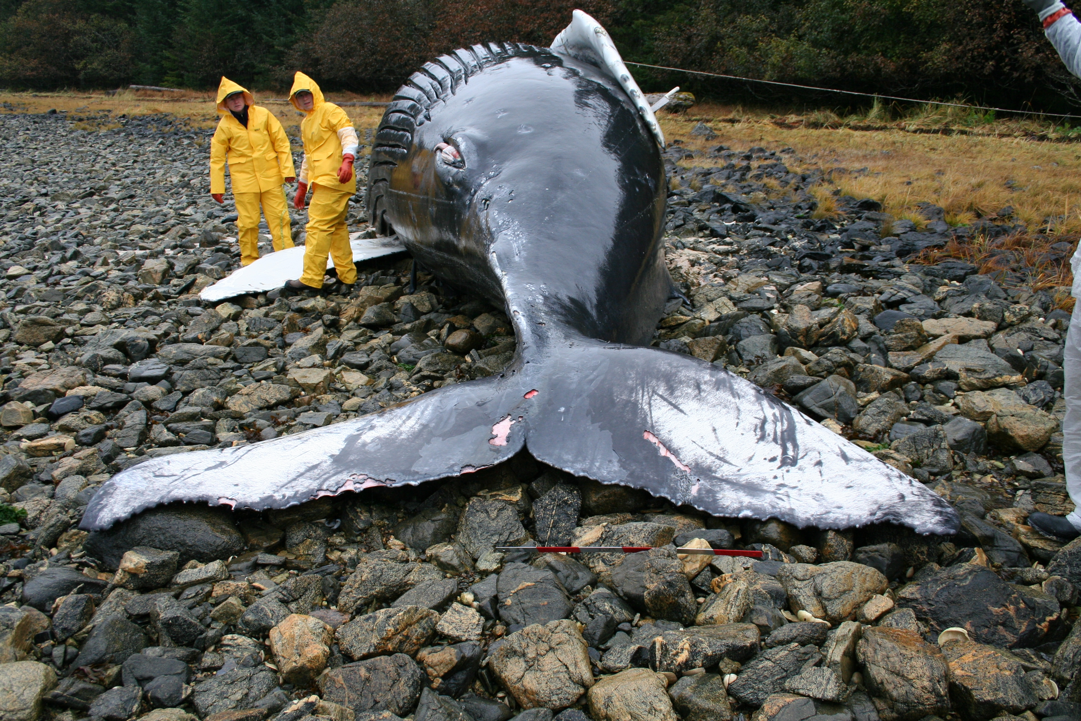 Beached humpback whale calf. Alaska, Peril Strait, Baranof Island.